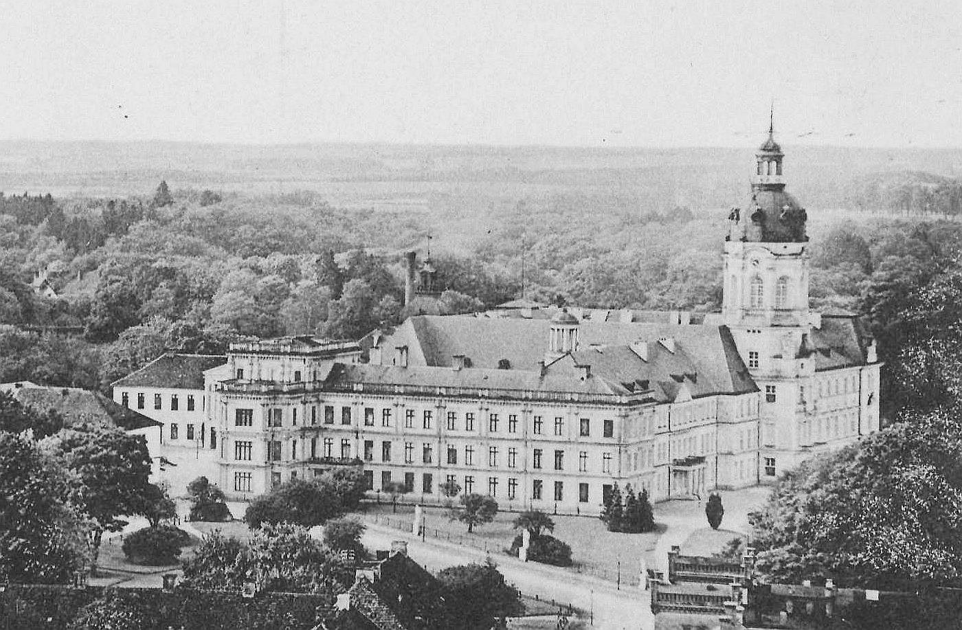 Castle Neustrelitz in former Grand Duchy Mecklenburg-Strelitz (about 1910), destroyed 1945